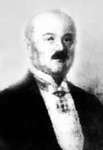 Portrait of Octavian Utalea